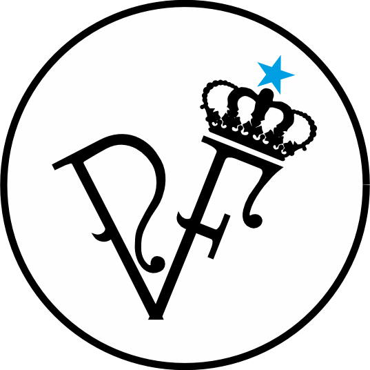 Froilanist Party logo